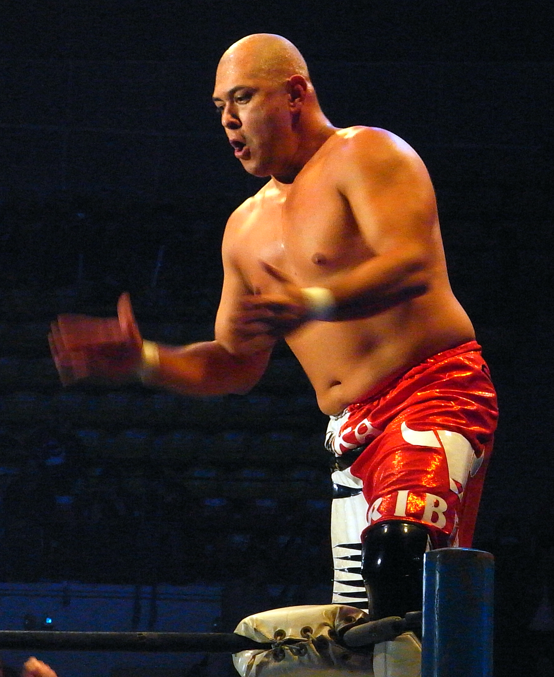 Taiyō Kea at AJPW "Pro-Wrestling Love in Taiwan 2010", National Taiwan University Gymnasium, Taipei.